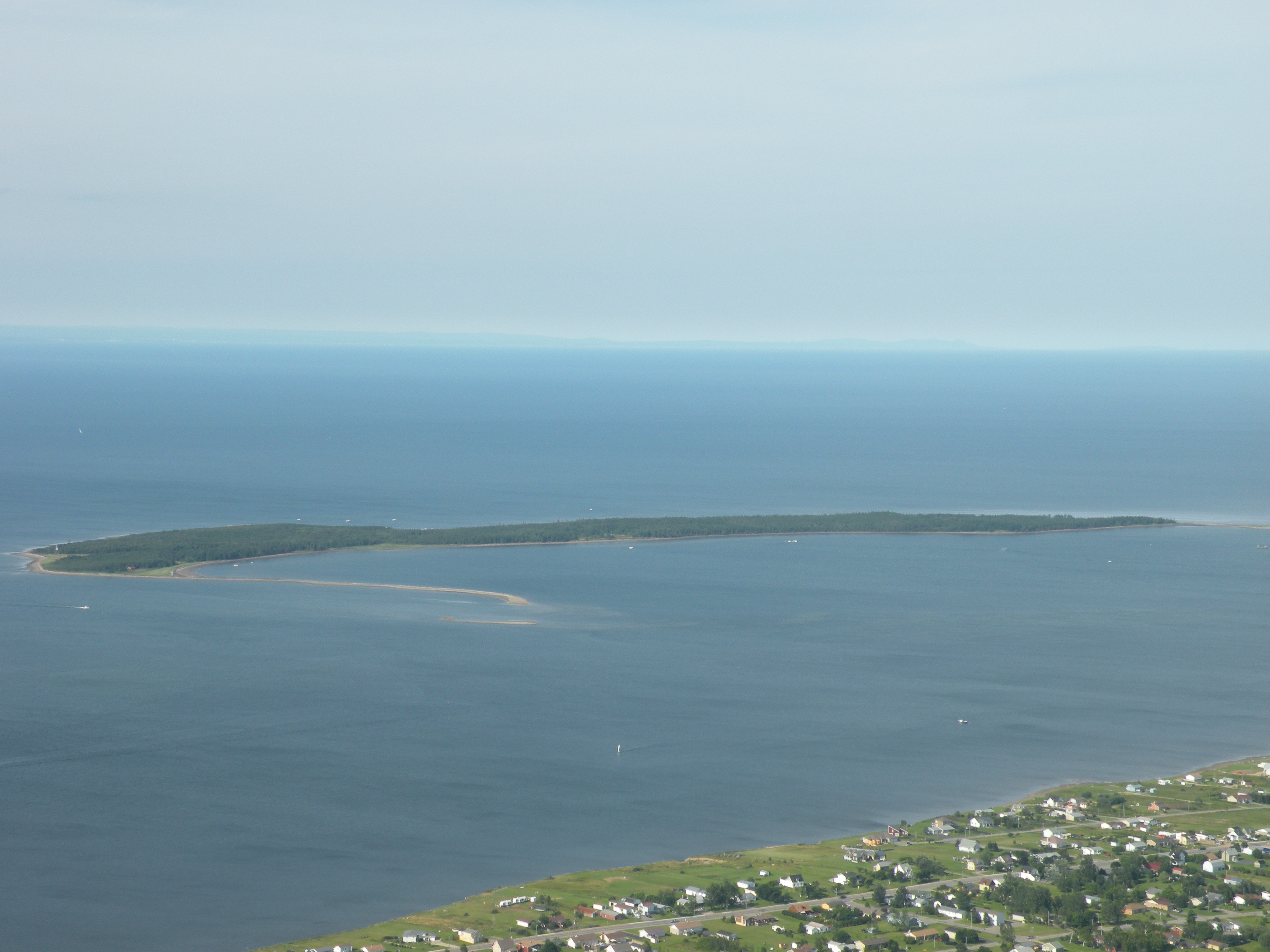 The Caraquet Island, in northeast New Brunswick, seen from the air.